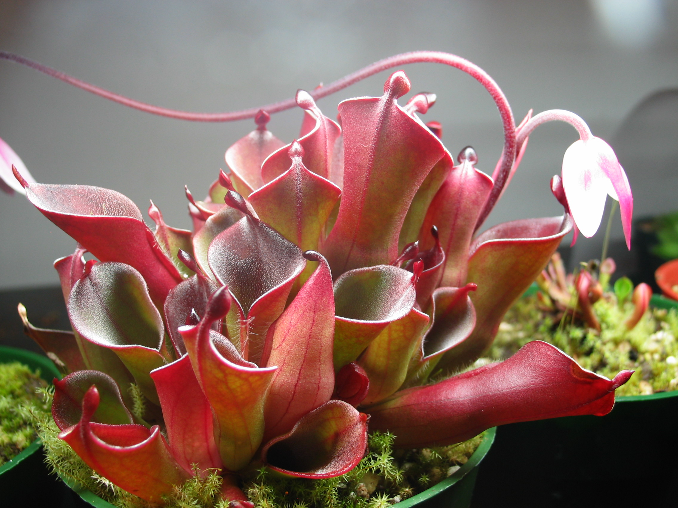 Carnivorous plant heliamphora pulchella.akopan